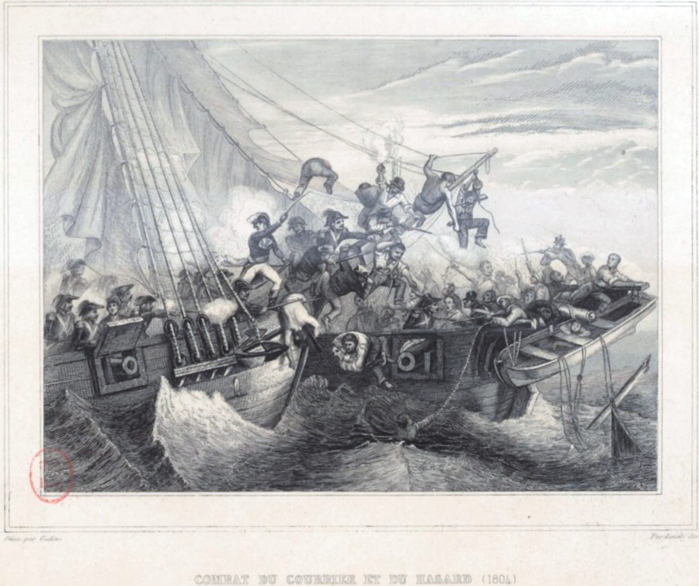 Illustration from Histoire maritime de France: Boarding during the battle between the French brig Courrier (Coursier?) and the British ship Hasard (Hazard?) (?), where General de Noailles was killed. Probably after Gudin.